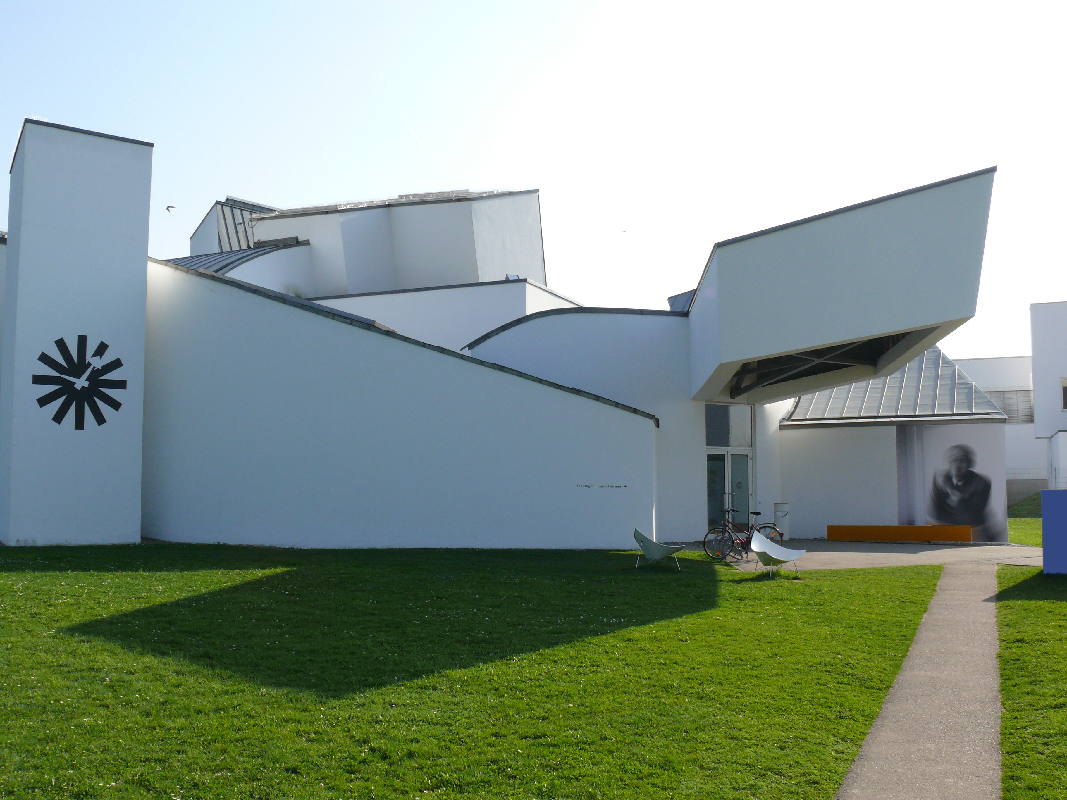 The Vitra Design Museum in Weil-am-Rhein (Germany). The museum Frank O. Gehry's first building in Europe, realised in cooperation with the Lörrach architect Günter Pfeifer.